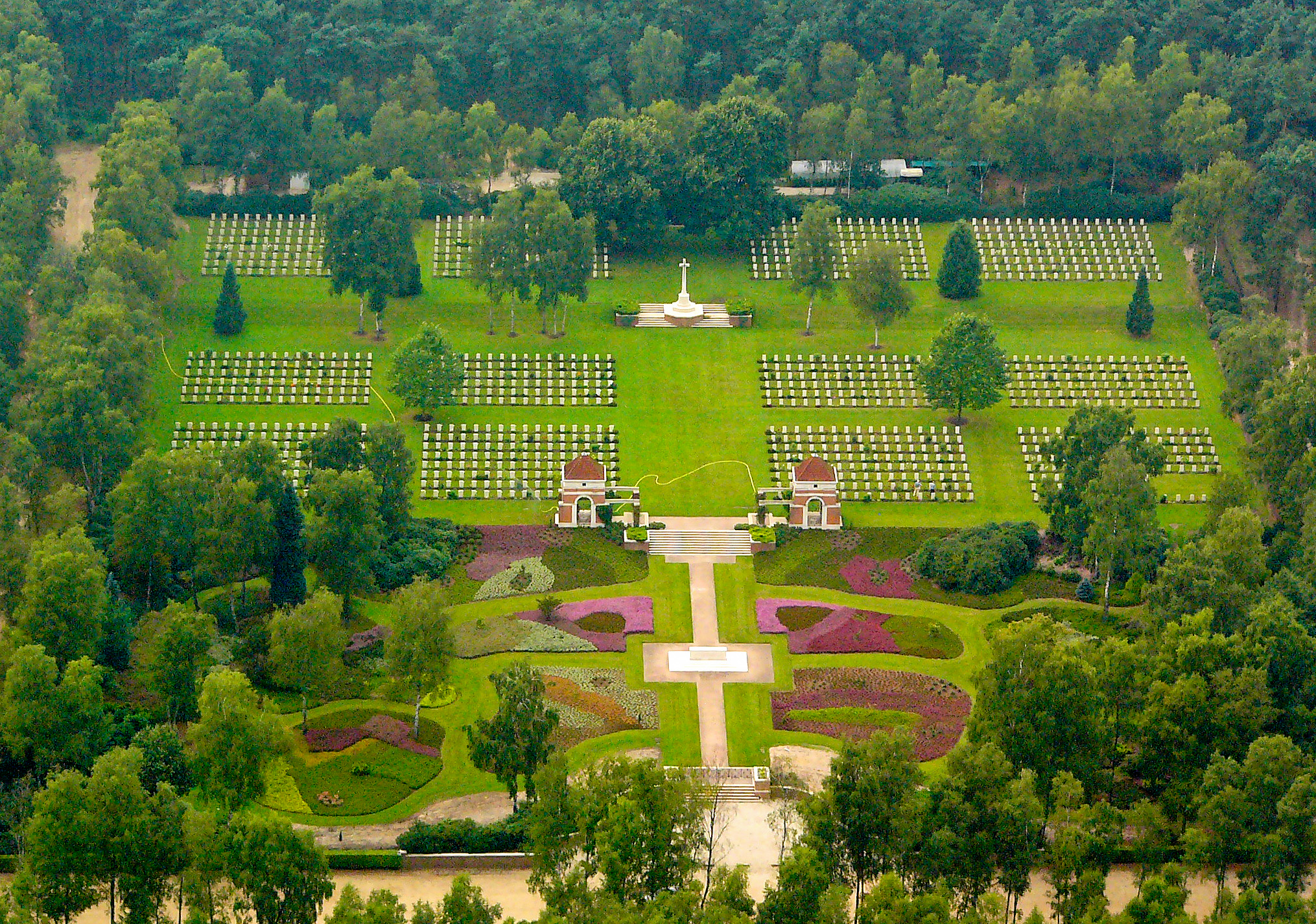 Canadian War Cemetery Holten. Luchtfoto Holten editie 20050907 Panasonic DMC-FZ10